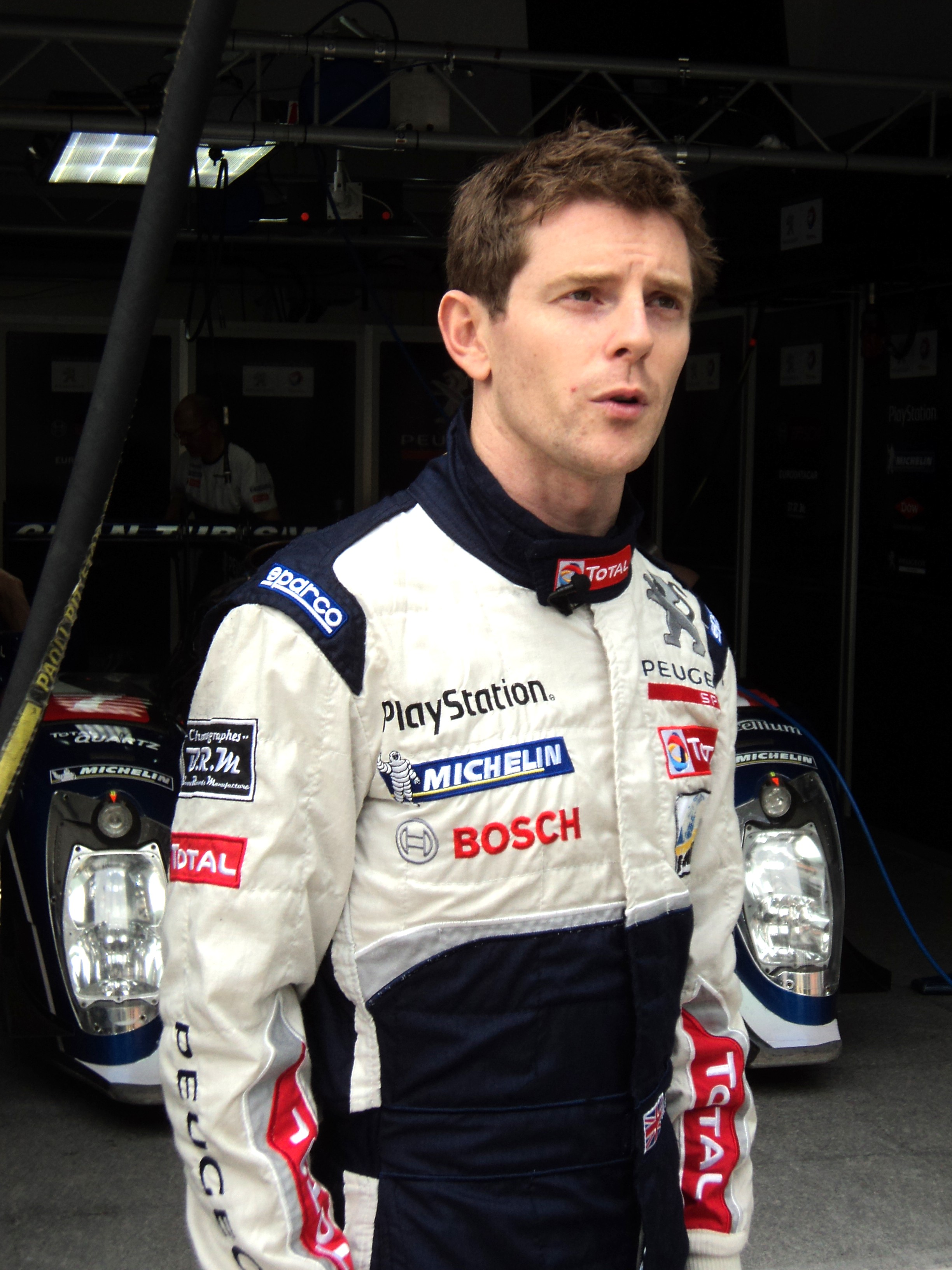 Anthony Davidson at Zhuhai International Circuit for the ILMC 6 Hours race with Peugeot.